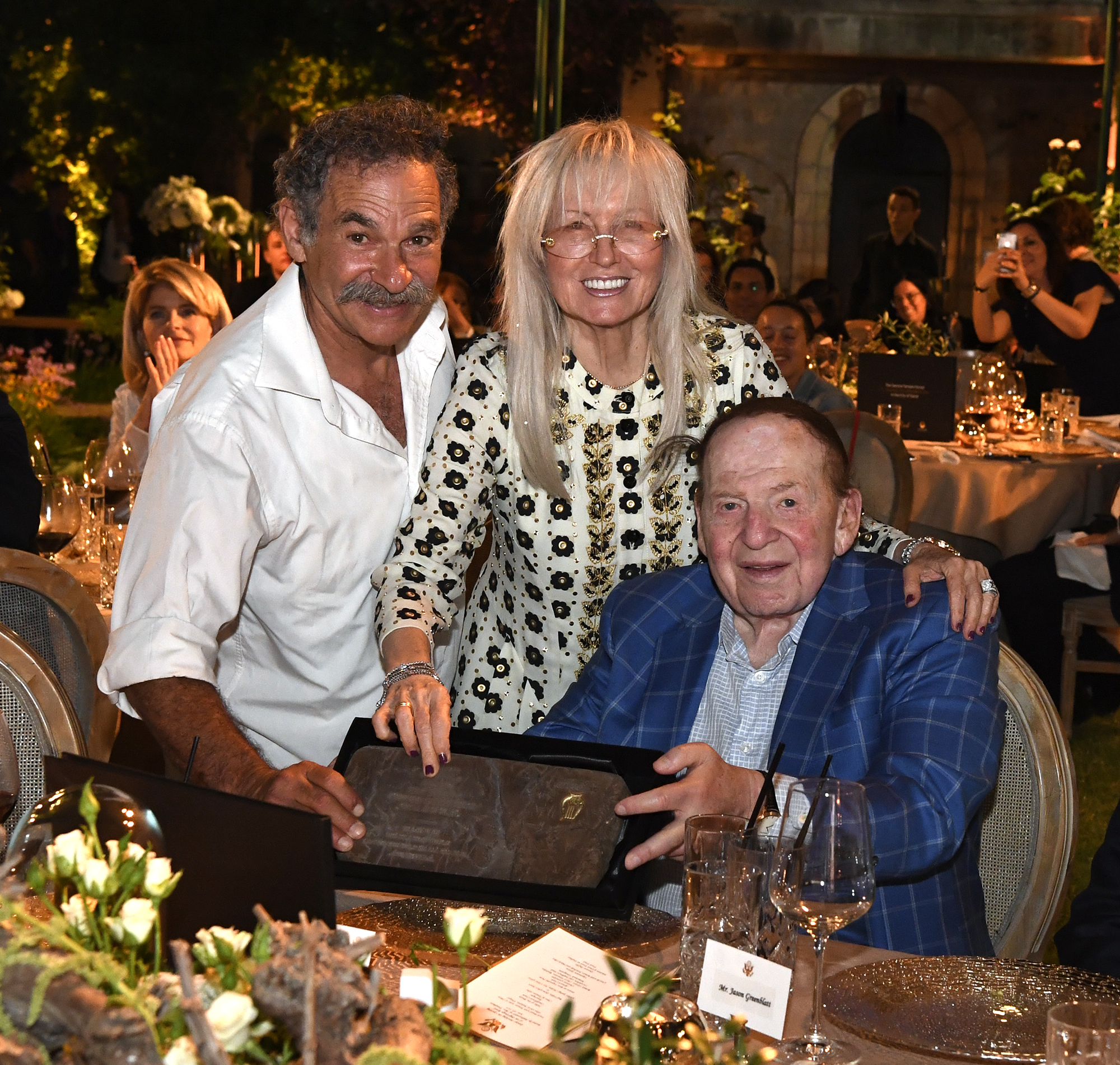 US Ambassador David Friedman and US Middle East special envoy Jason Greenblatt attended the inauguration of Pilgrimage Road in the City of David, Jerusalem June 30, 2019